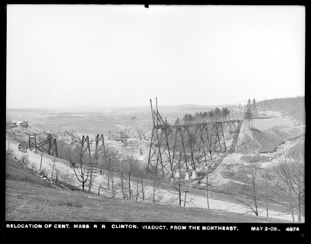 Central Massachusetts Railroad Relocation, viaduct from the northeast, Clinton, MA, May 2, 1902